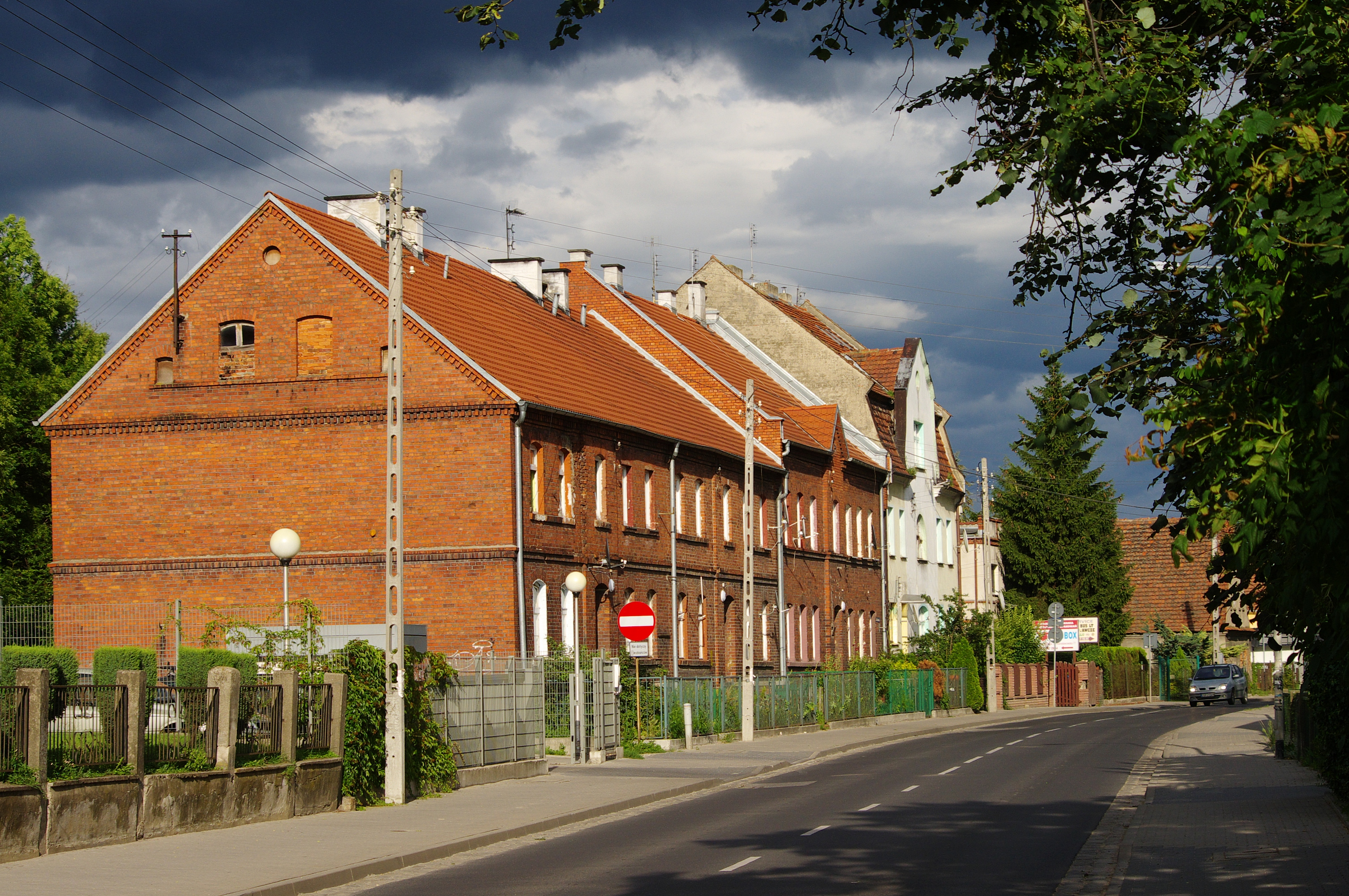 Stanisławowska Street, Muchobór Wielki, Wrocław, Poland